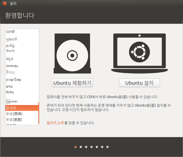 Ubiquity installer on Ubuntu 13.04(Korean).